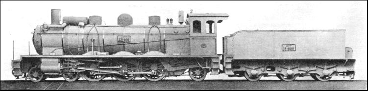 Pacific No. 808 built by SACM for the metre gauge Chemins de Fer Bone a Guelma